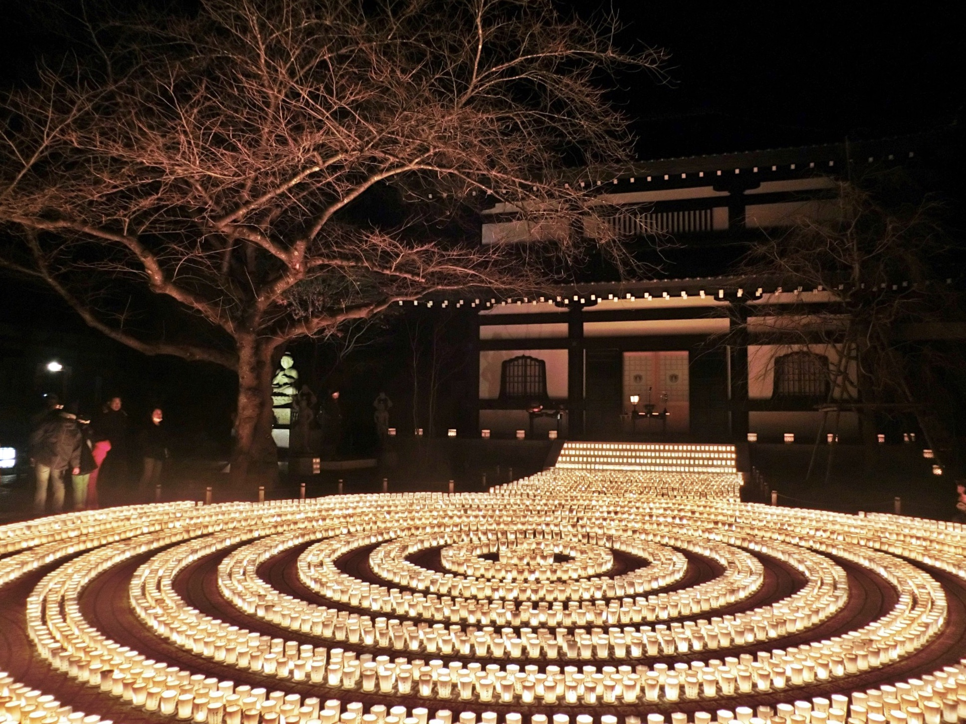 Ten thousand lights prayer at Hase-dera, Kamakura, Japan